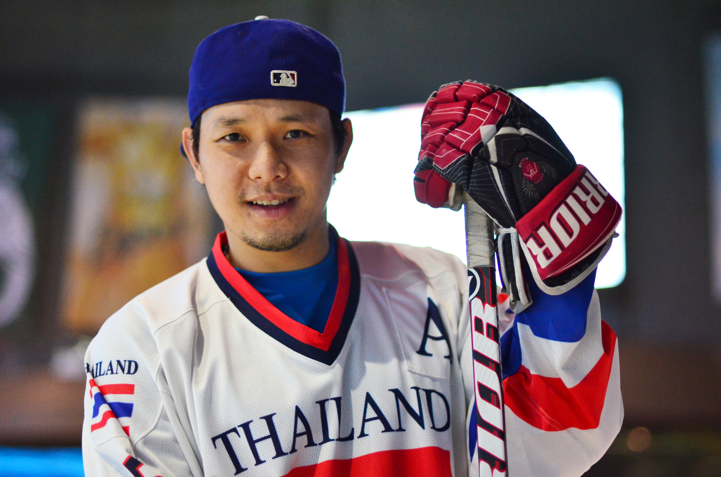 Tewin Chartsuwan